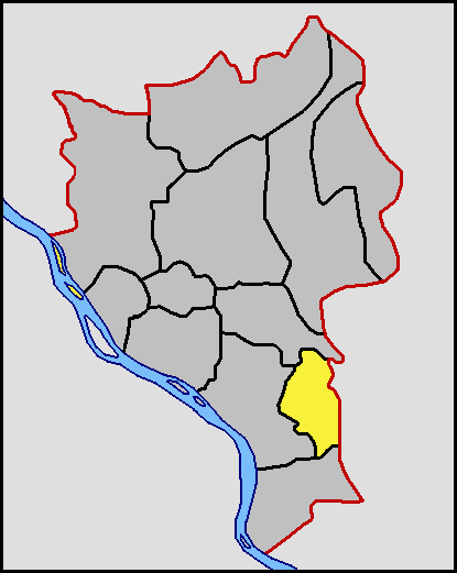 Shabas El-Shuhada Village, Desouk - Egypt